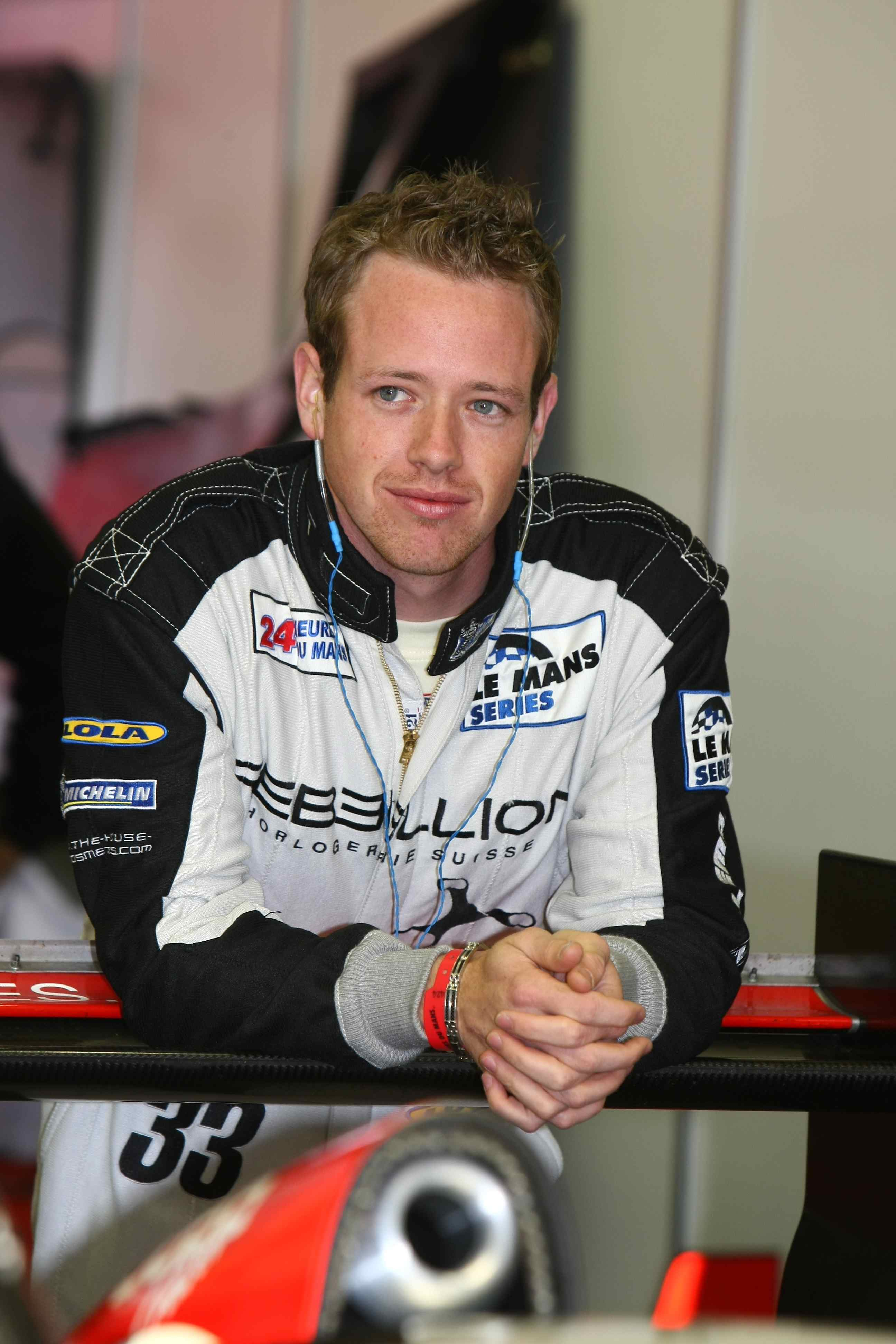 Steve Zacchia Swiss racing drive